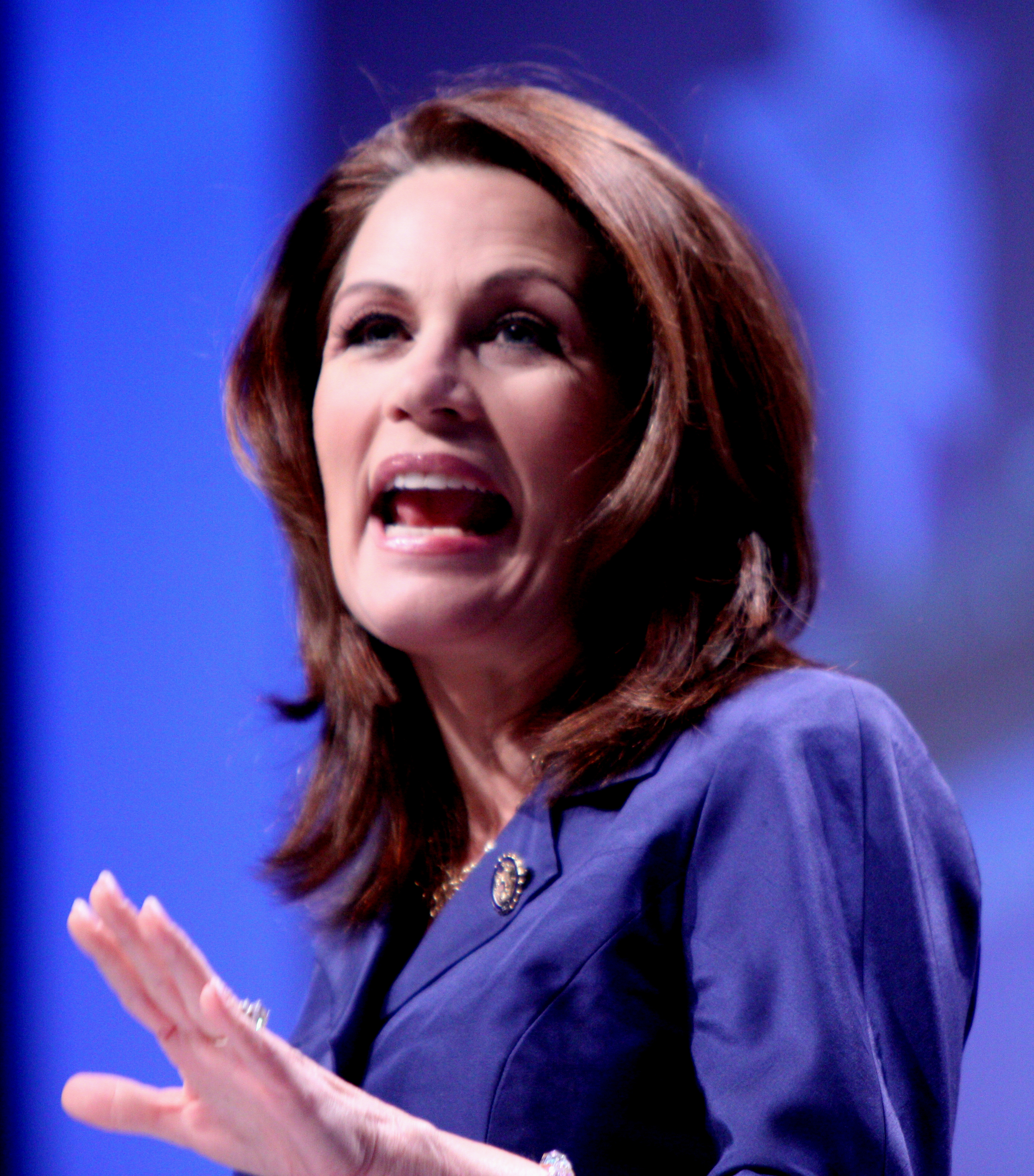 Michele Bachmann speaking at CPAC in Washington D.C. on February 10, 2011.